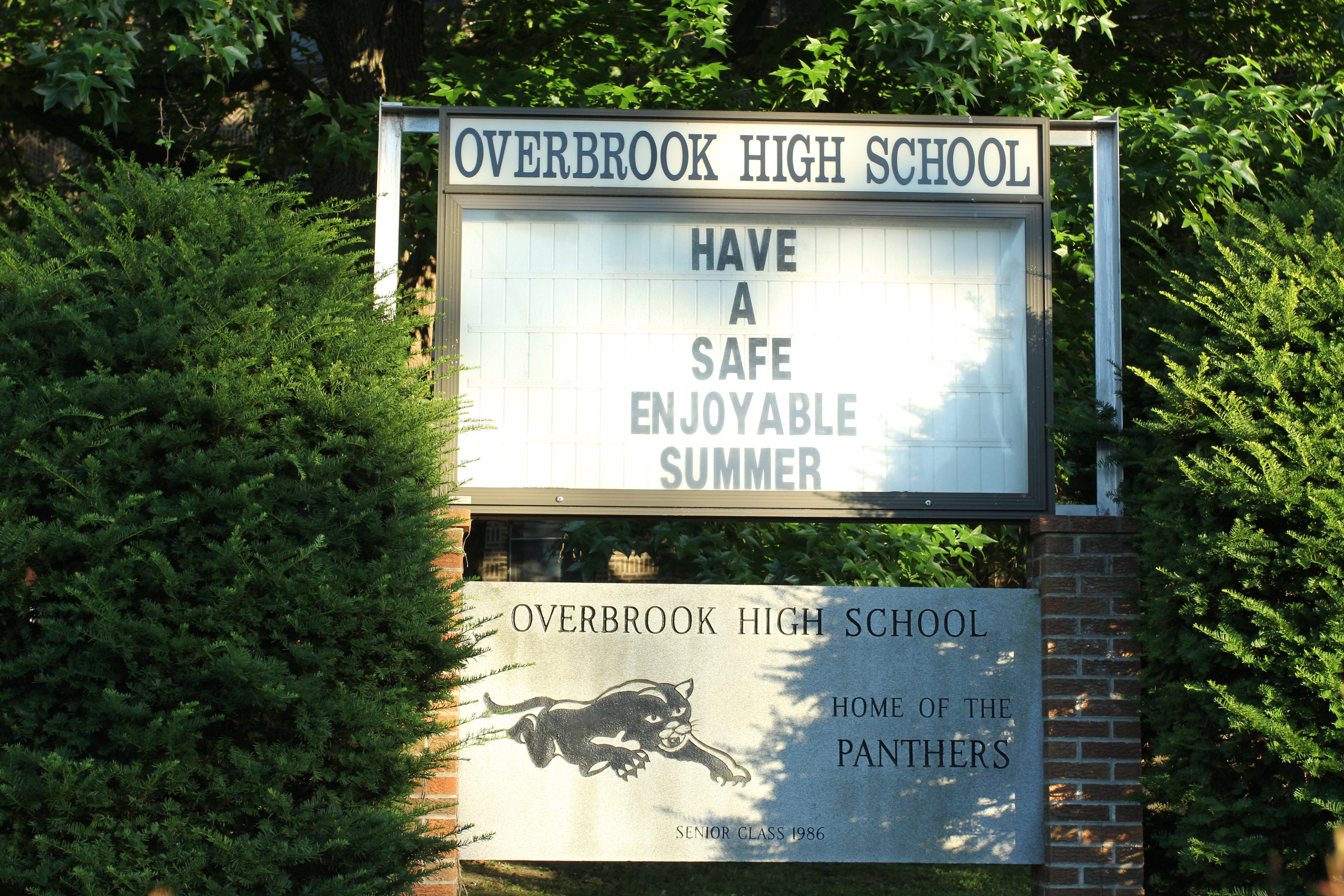 Overbrook High School in Phila